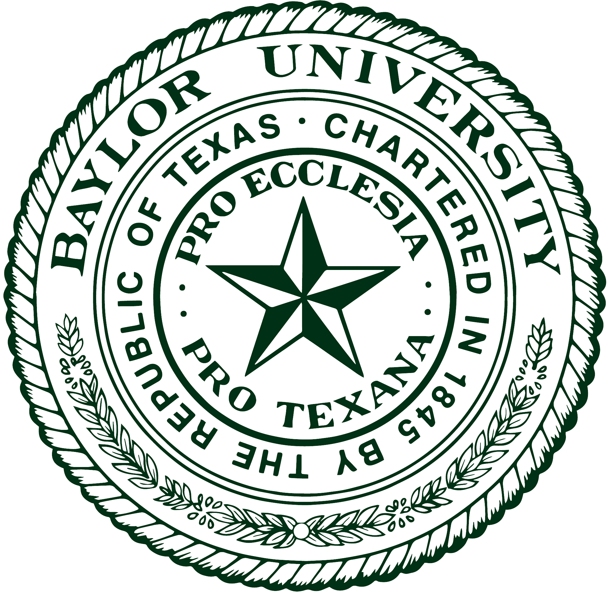 This is the official seal of Baylor University with a blank background. The seal itself is colored with the signature green of the university. For more information, Graphic Standards